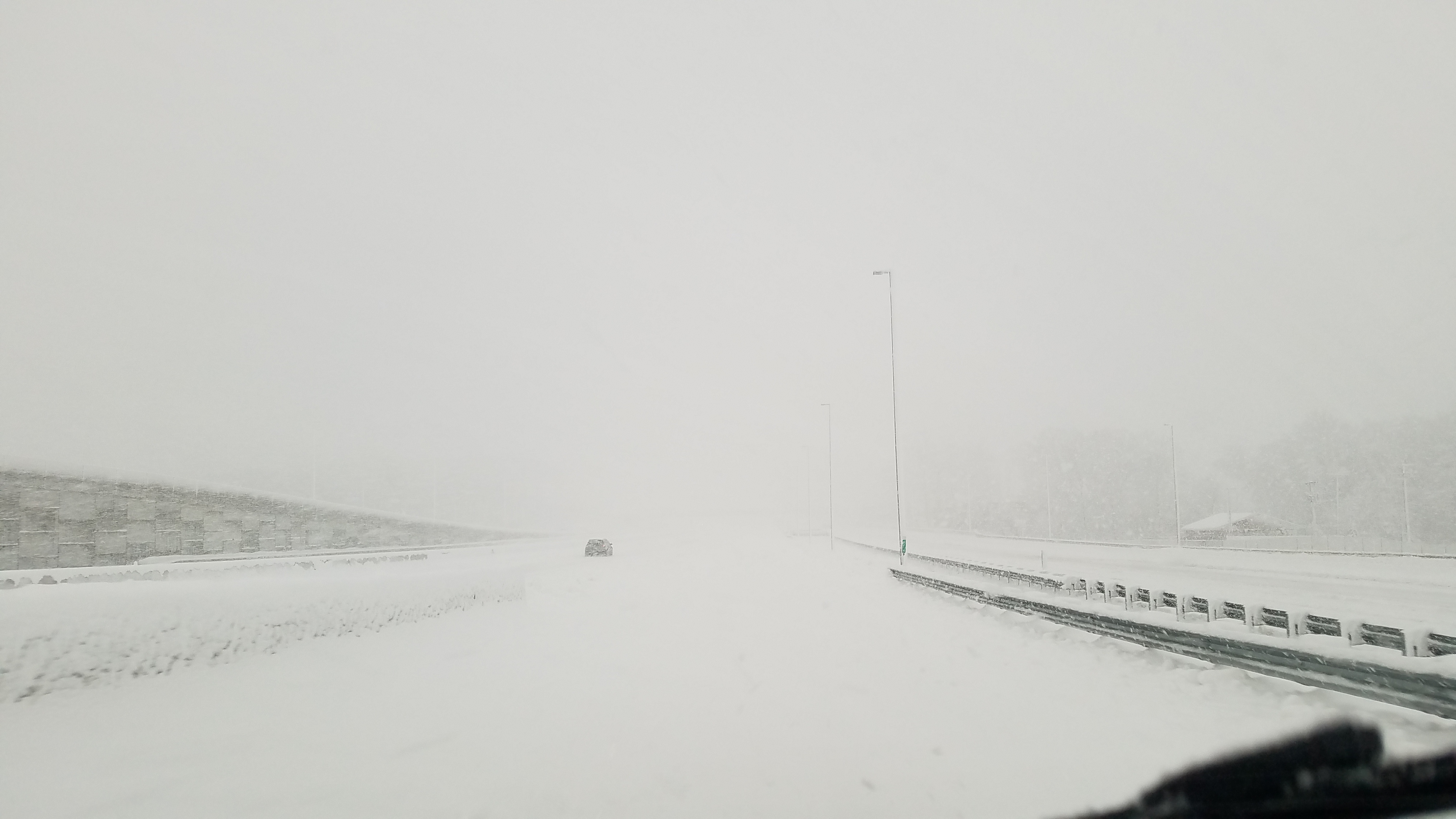 Near whiteout condition on New Jersey Turnpike during the March 7, 2018 Nor'easter